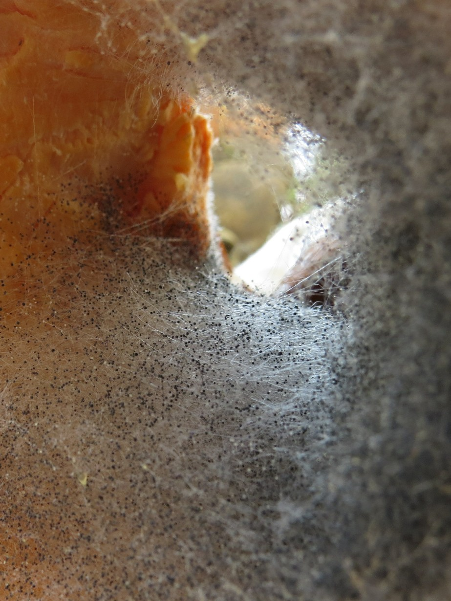 The photo depicts a type of fungus Aspergillus niger, also known as black mold. The fungus in this photo is on the fruits of a pumpkin , the exact form of which is unknown. Fungus reached the given state for 6 days.